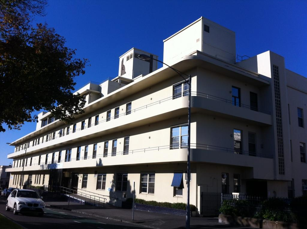 Freemason's Hospital, East Melbourne